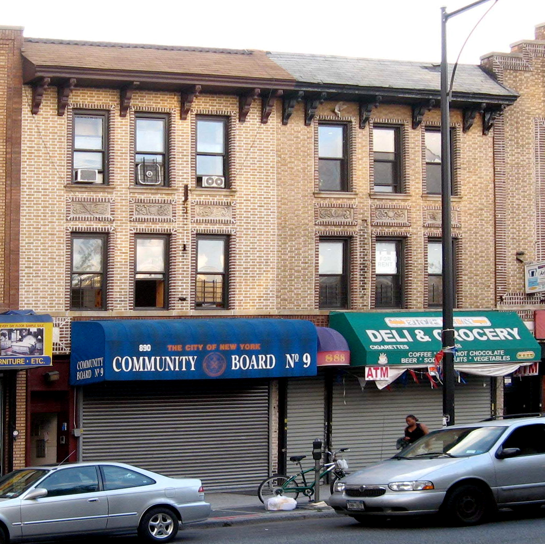 Looking west across Nostrand Avenue, near Carroll Street, at office of Brooklyn Community Board 9 on a sunny early evening